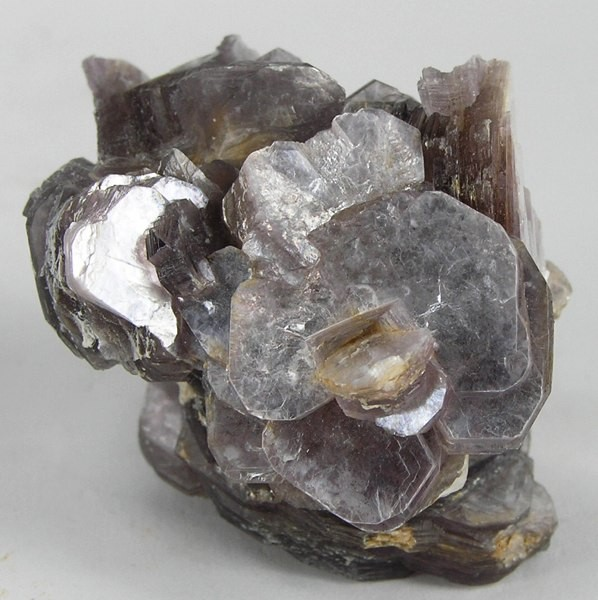 Lepidolite Locality: Himalaya Mine (Himalaya pegmatite; Himalaya dikes), Gem Hill, Mesa Grande District, San Diego County, California, USA (Locality at ) Size: 4.8 x 3.9 x 3.5 cm. A cluster of slightly lavender, translucent "books" of bladed lepidolite from the Himalaya - really not all that common from this classic locality, as compared to Brazil. These flashy, silvery crystals are compressed "books" of wafer-thin sheets, pressed so closely that if you look at them from the side they look like translucent, light lavender single crystals. Ex. Chuck Houser Collection.